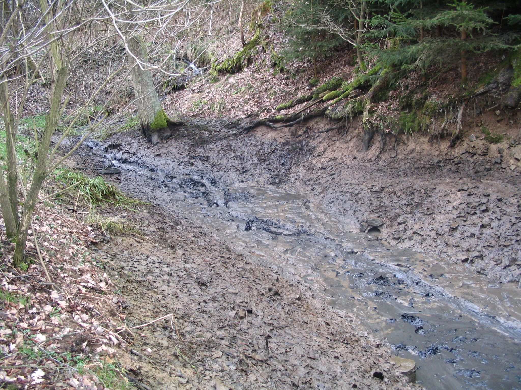 Bahno po vypusteni rybnika. ( Mud on the bottom pond. )